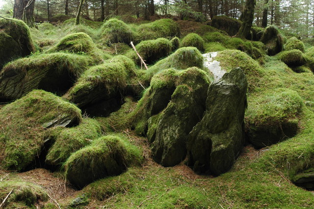 Moss covered rocks, Beddgelert Forest